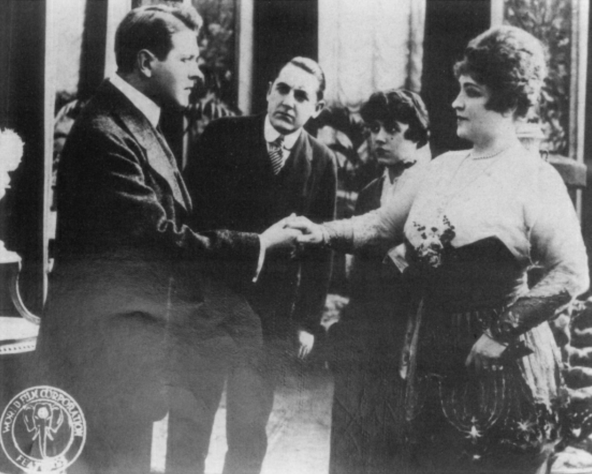 Publicity still by World Film Co. of Lillian Russell in a scene from their silent film Wildfire, made in 1915.